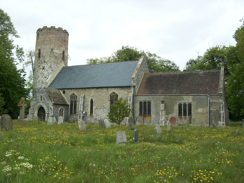 Burgh Castle St. Peter and St. Paul